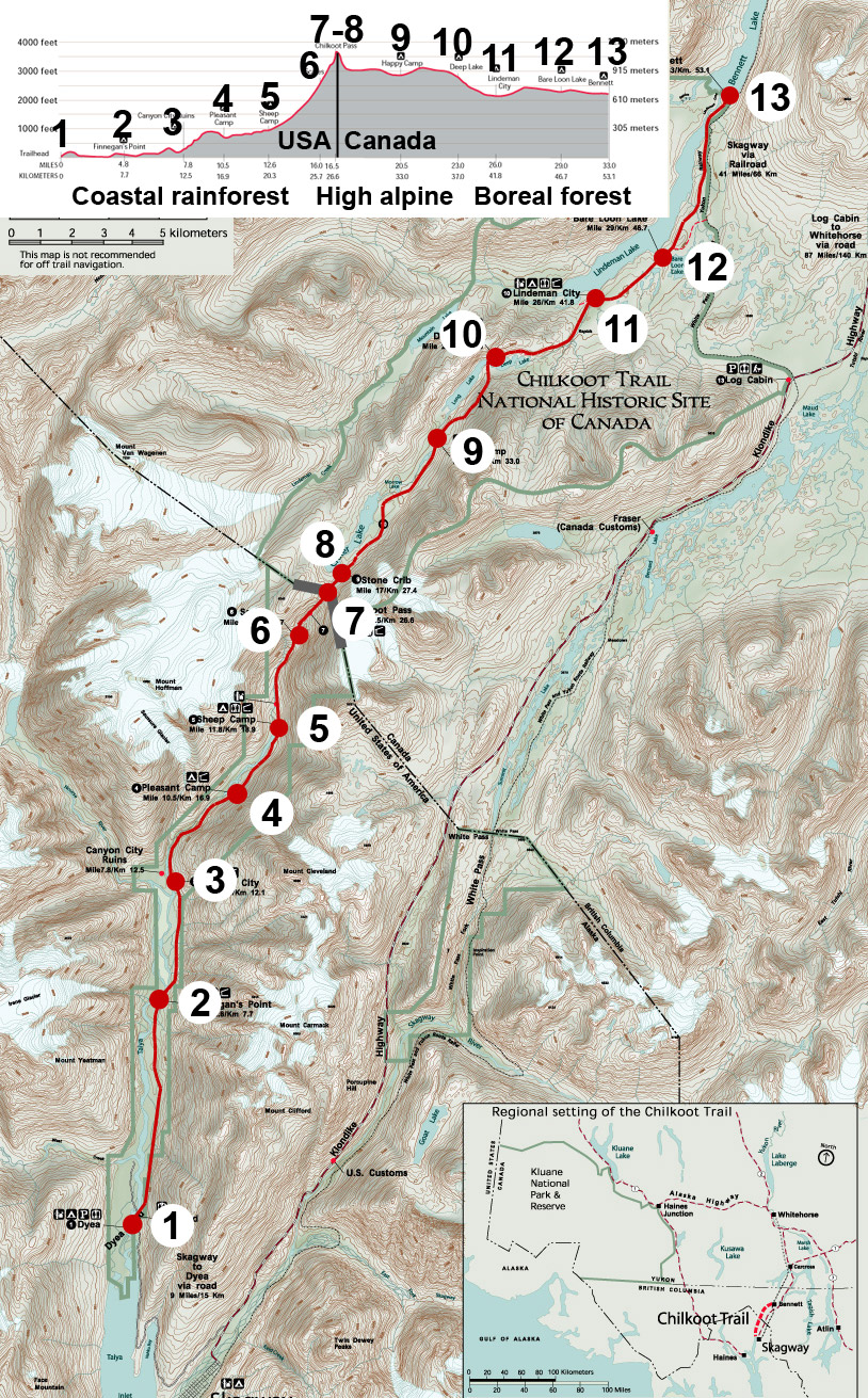 Modern map of Chilkoot trail